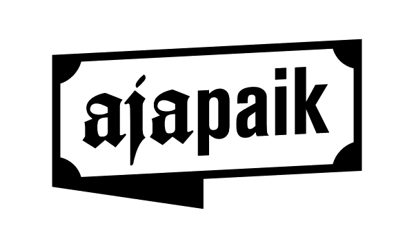 Ajapaik logo